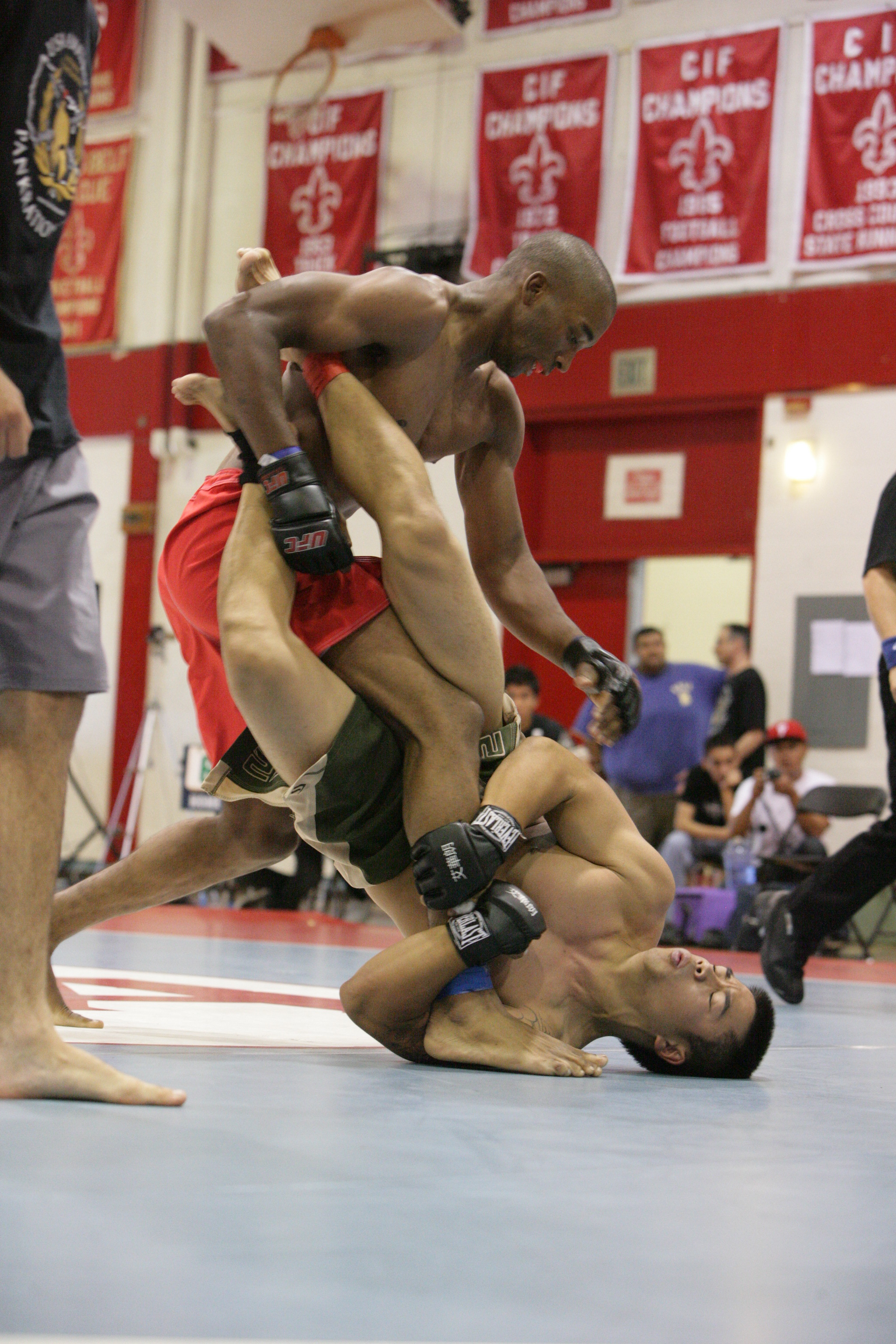 Dominique Waters, Fight Club 29 fighter, prepares to swing at an opposing teammate clinging to his leg during the USA National Pankration Team Championships tournament held at Santa Ana High School in Orange County, Calif., Saturday, July 26, 2008. Waters, one of the newest fighters to join Fight Club 29, is a 19-year old freestyle wrestler by trade.